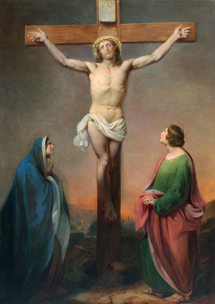 Trauer angesichts des gekreuzigten Jesus